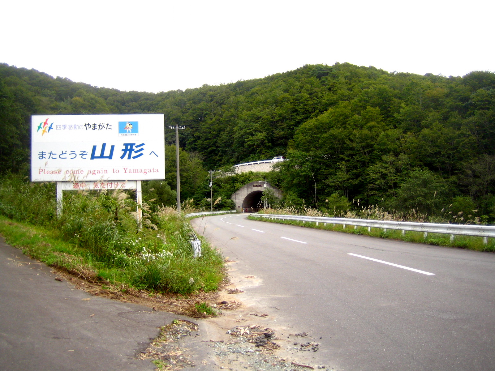 Nabekoshi Touge. This picture was taken from Yamagata side.